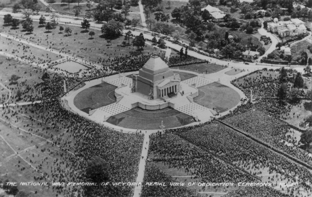 Aerial view of the dedication ceremony for the Shrine of Remembrance, Melbourne, Australia, taken on 11 November, 1934. Over 300,000 people attended, representing approximately a third of Melbourne's population at the time.